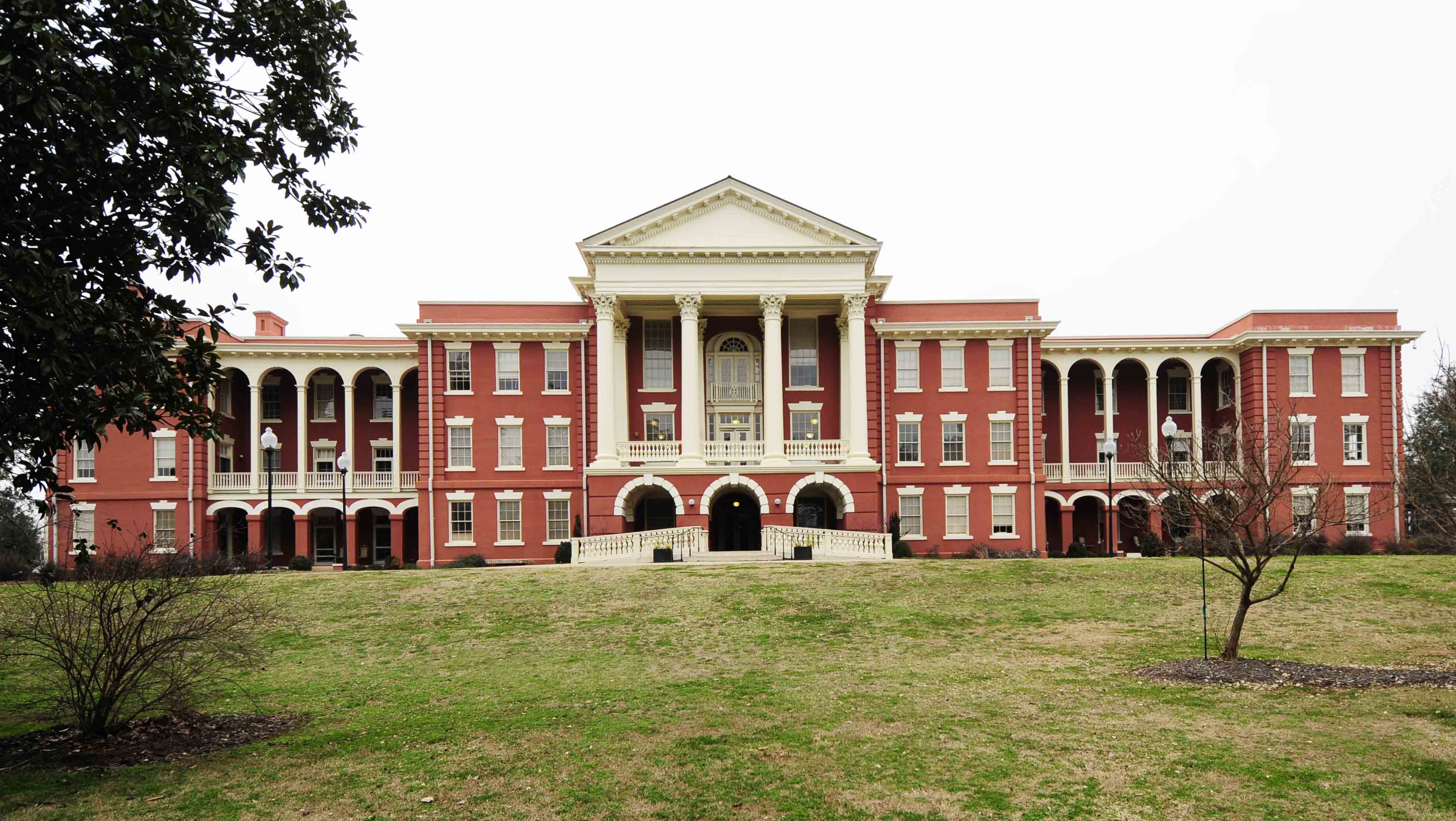 Walker Hall